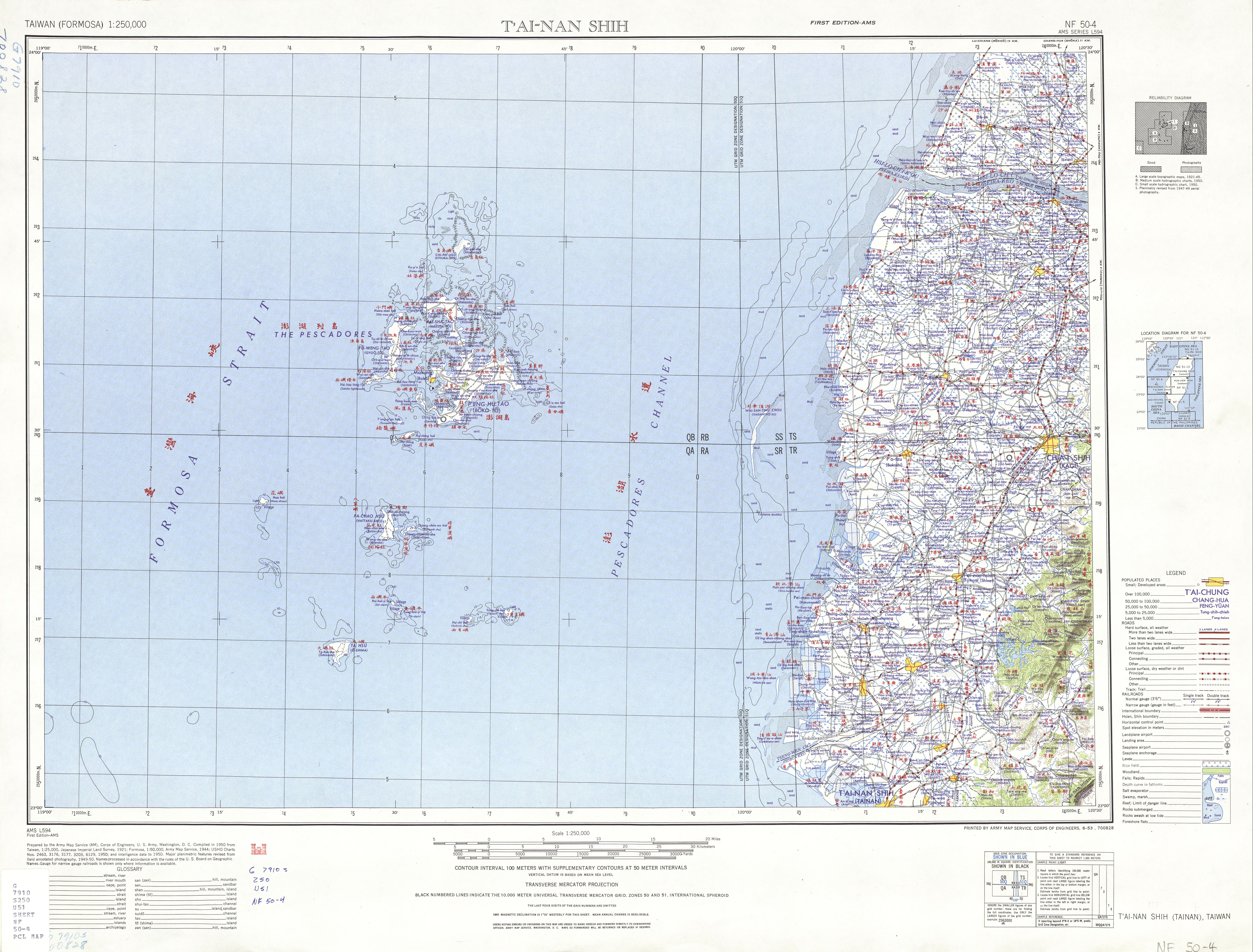 Tawian AMS Topographic Maps